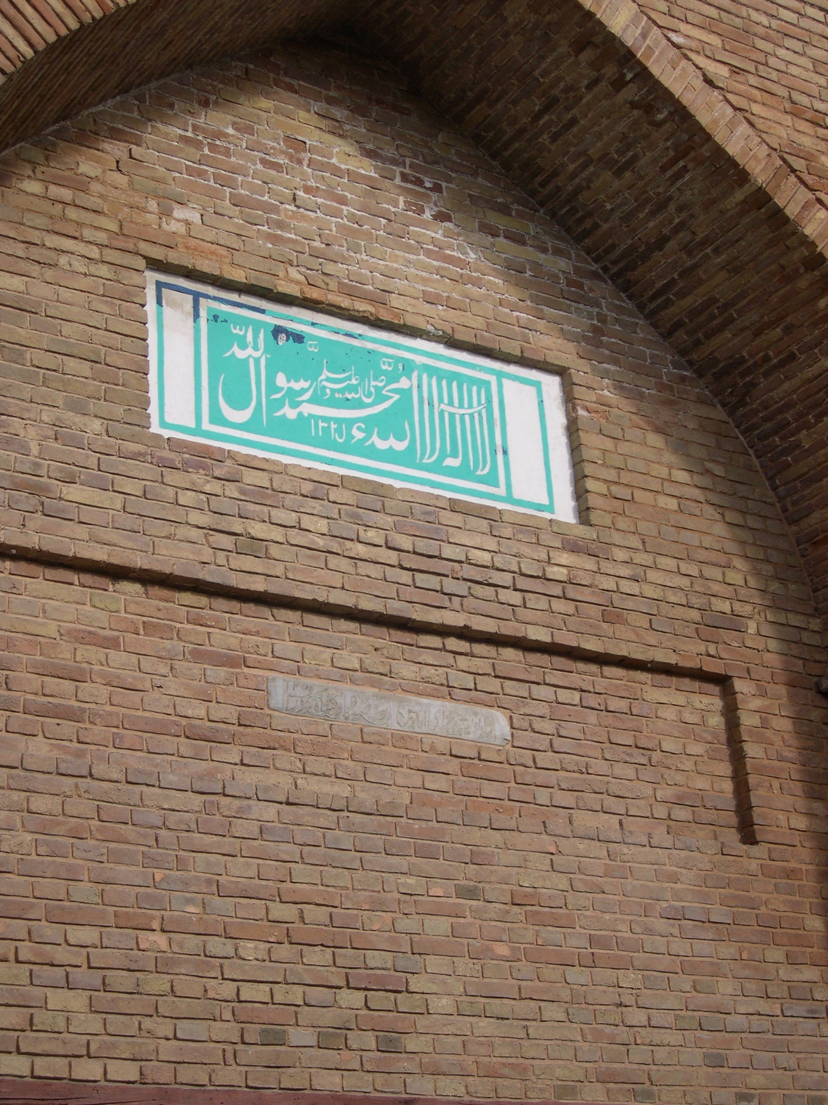 We took a one day tour of the various historic sites around Taraz, which started with... the Karakhan Mausoleum, the same place we walked to a week before. Because I had already taken pictures there, I just took this one of the incription along the side of the mausoleum.